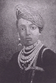 Shivaji IV of Kolhapur